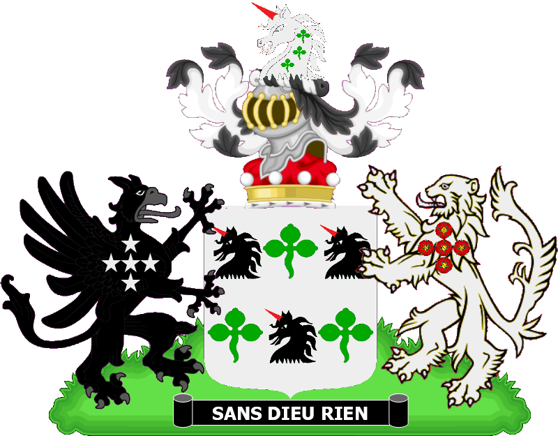 The armorial achievement of The Lord Kilbracken